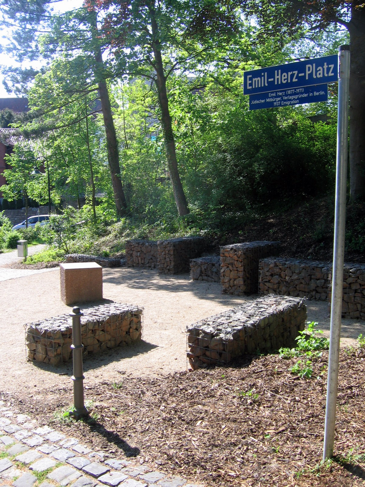 The Emil Herz Square in Warburg.